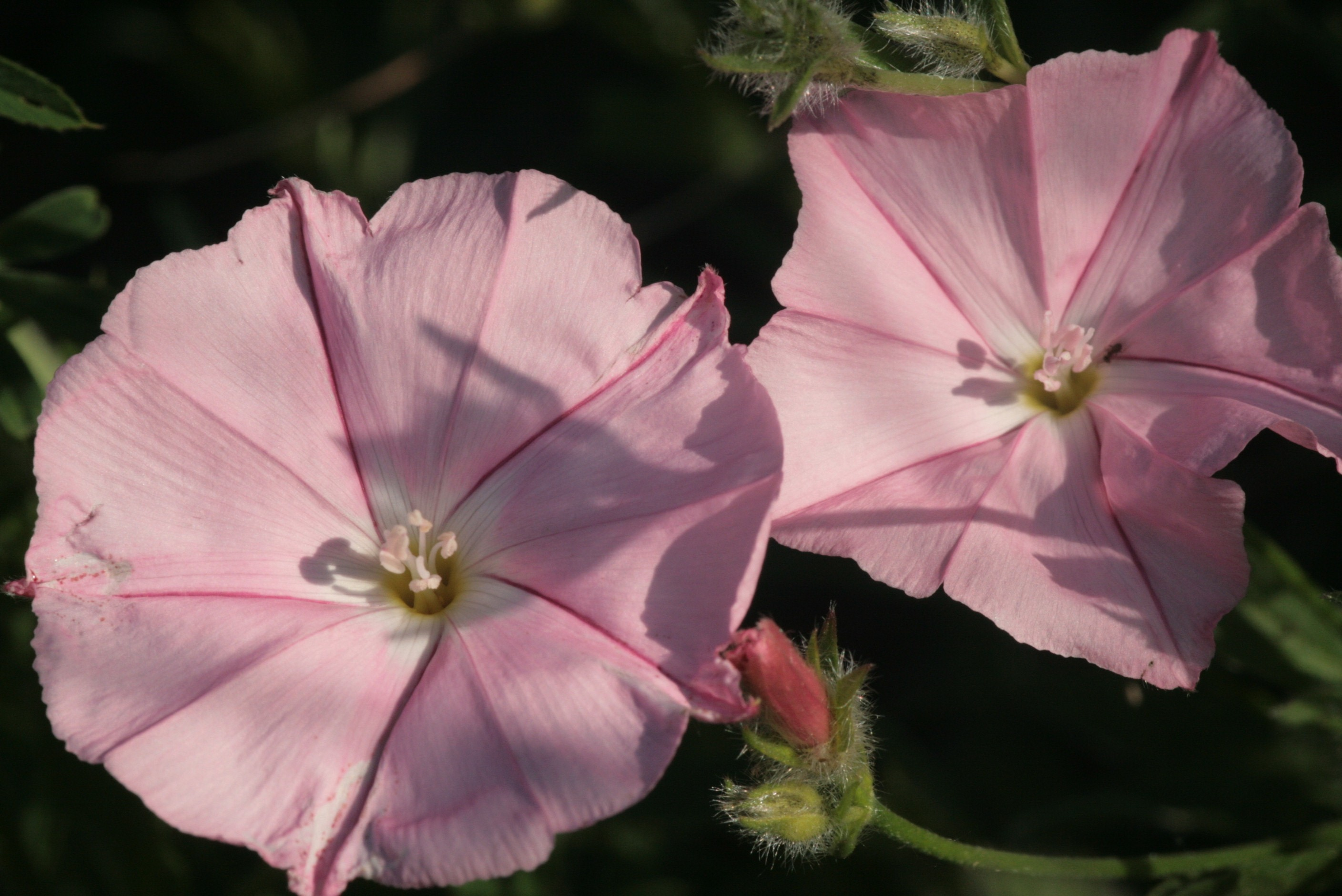 Convolvulus cantabrica